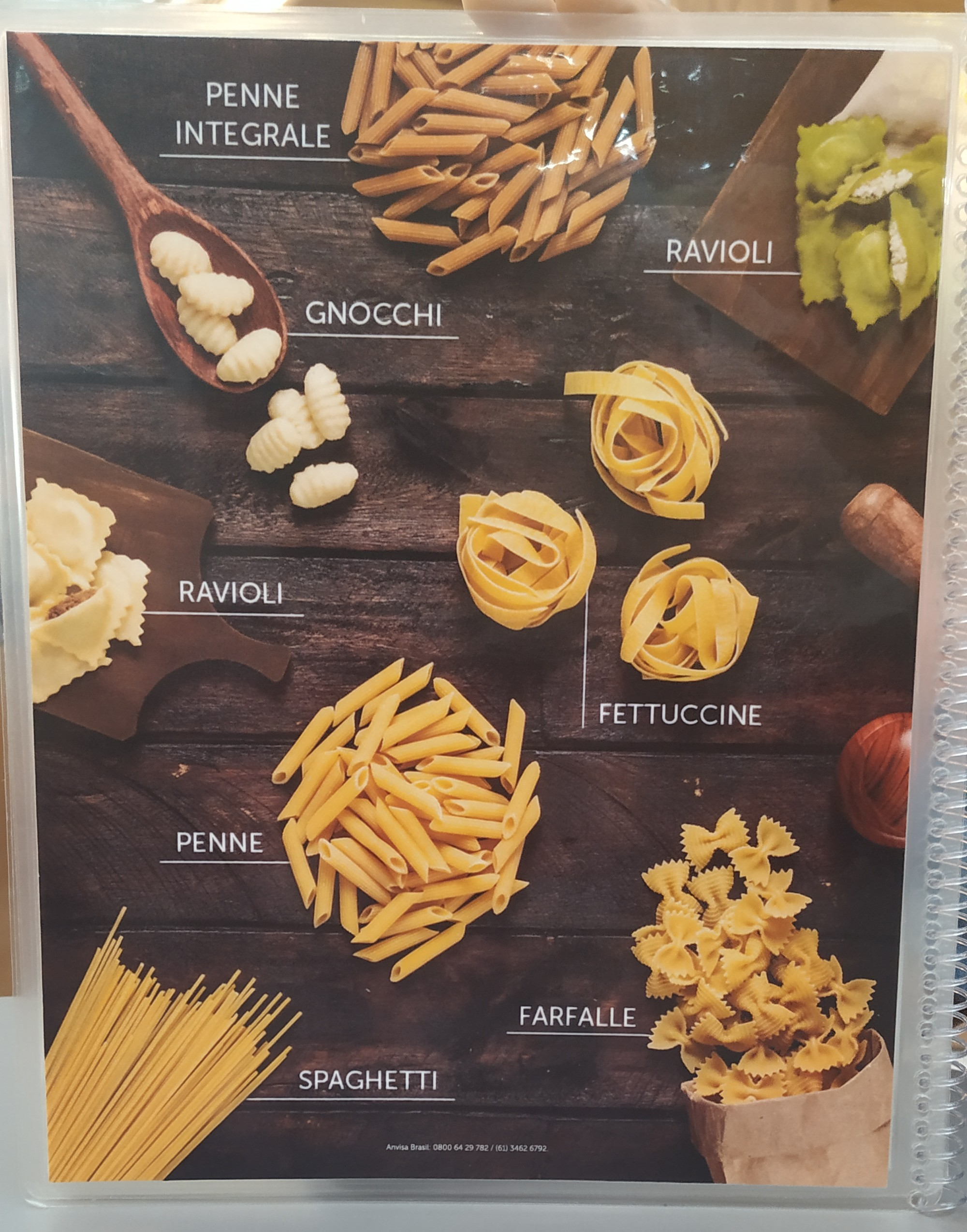 Third page of Spoleto menu in 2019 from Mogi das Cruzes, São Paulo. Menu from the new stores called "My Italian Kitchen".